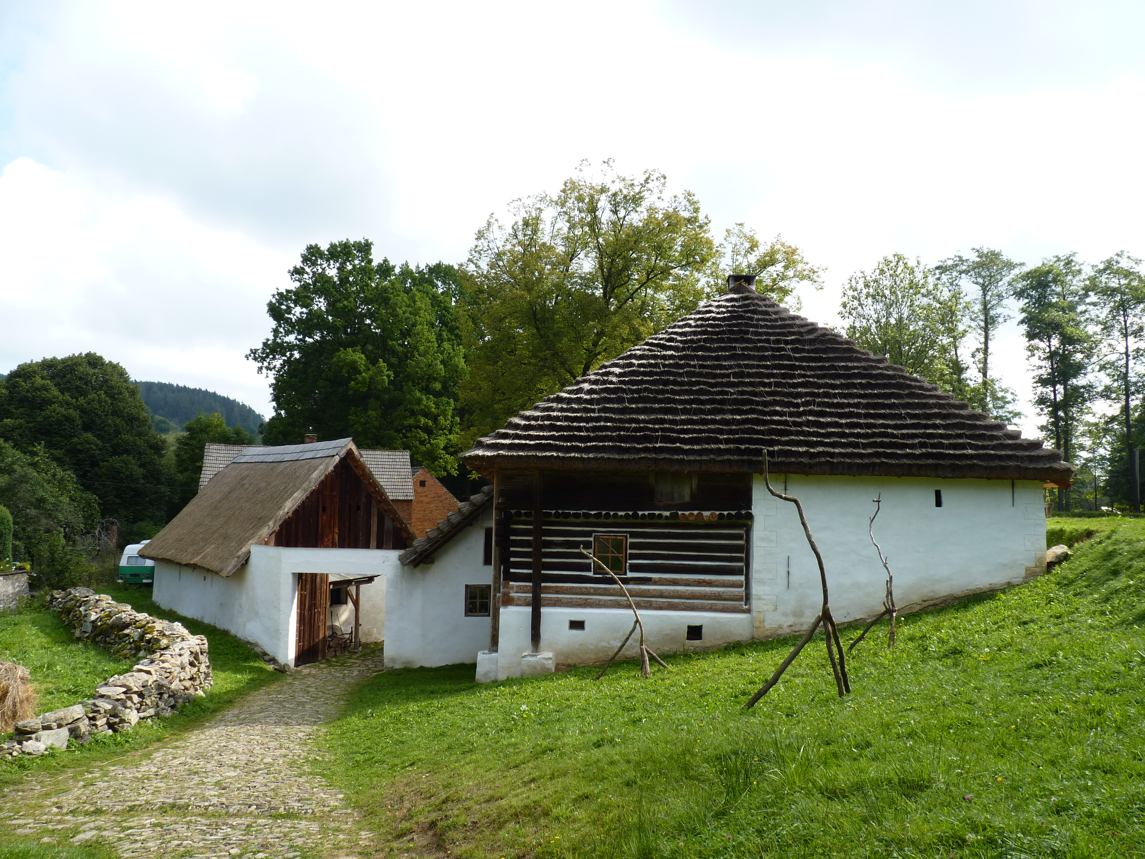 Watermill in Hoslovice, Strakonice District, South Bohemian Region, Czech Republic